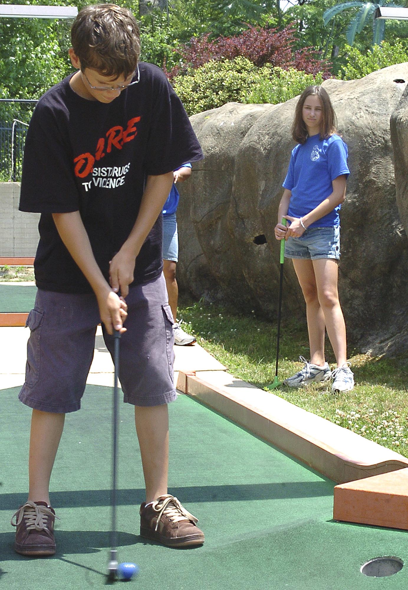 Jacob Till, Quantico-Summer Adventure Camp member, lines his golf ball up with the hole, as fellow camper Amy Martin waits for her turn. The youth center�s summer camp visited Putt Putt Golf Fun Center in Fredericksburg, Va., for one of its weekly field trips.